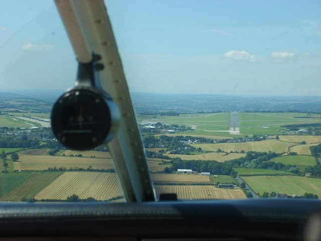 Runway 24 RAF Lyneham